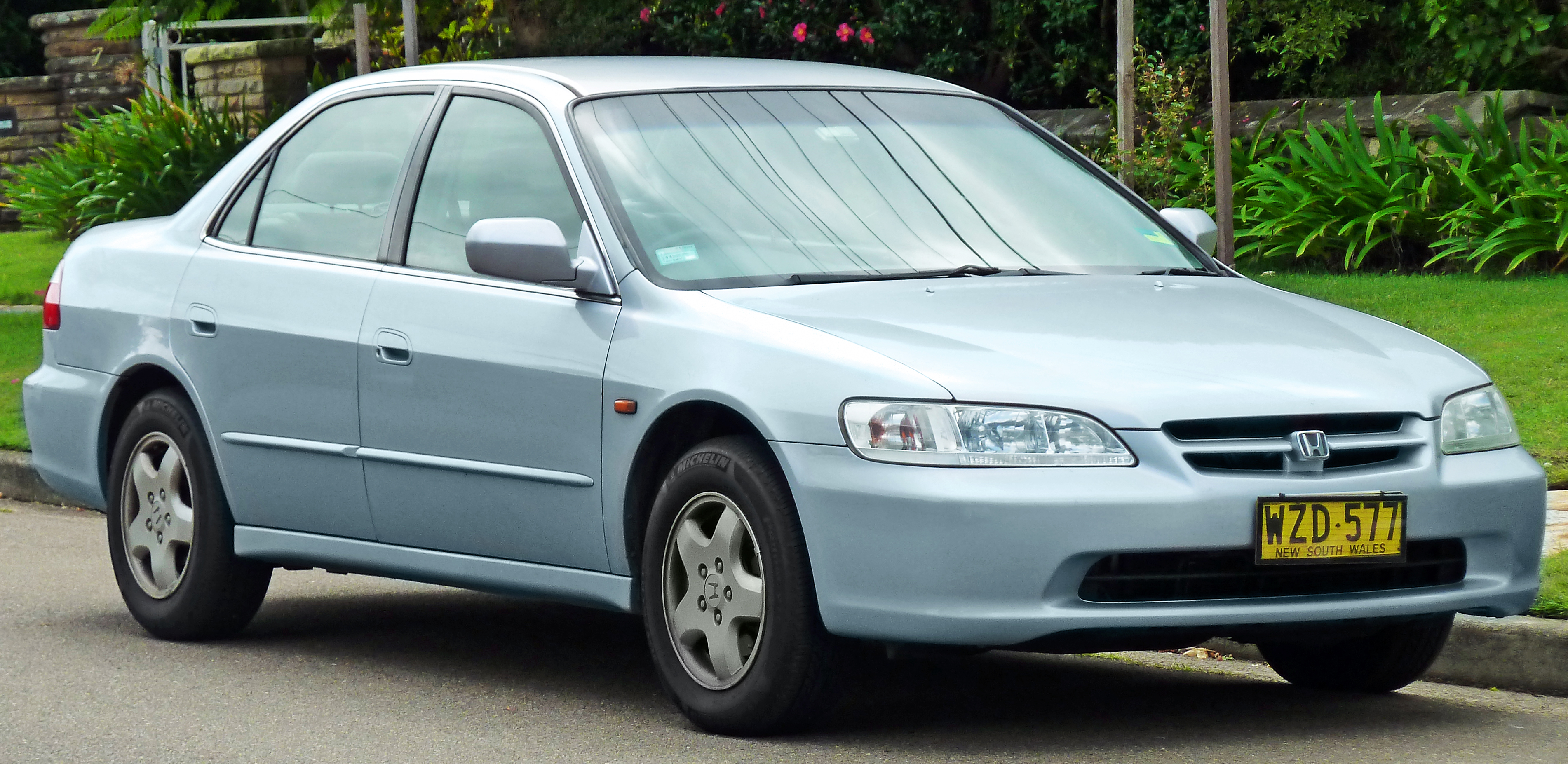 2000 Honda Accord V6 sedan. Photographed in Killara, New South Wales, Australia.